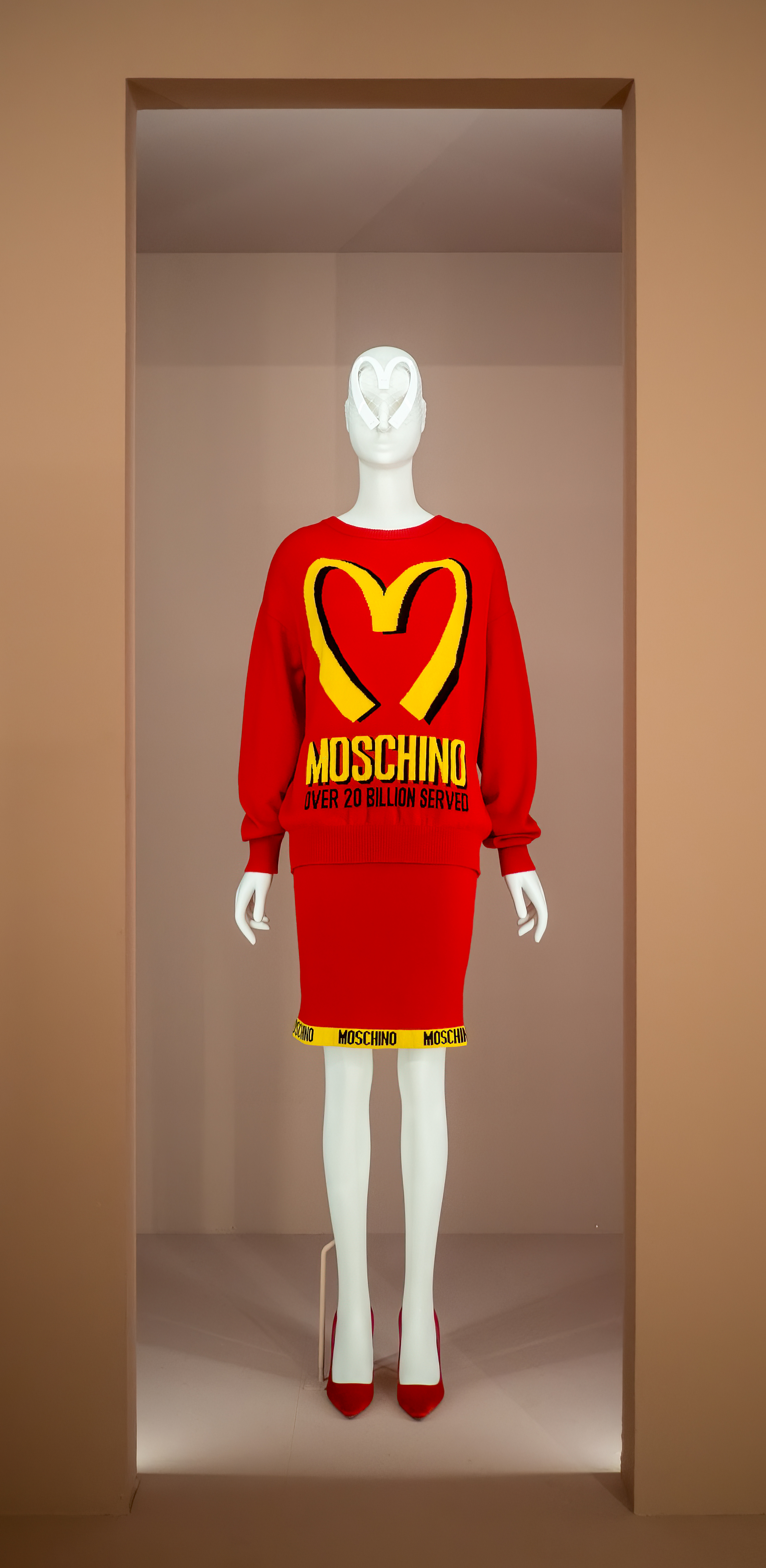 Moschino fall 2014 ready-to-wearCamp: Notes on Fashion exhibit at the Met